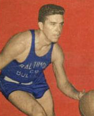 Professional basketball player Buddy Jeannette